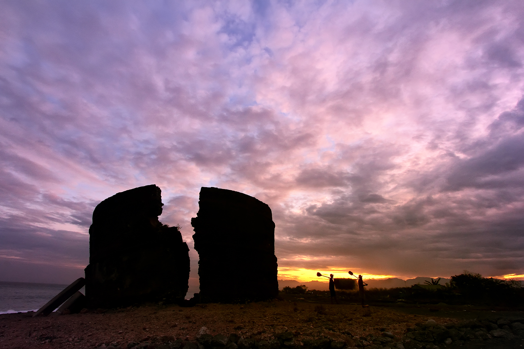 there are many watchtowers in the Philippines that were built since Spanish era. But the Baluarte in Luna town in La Union literary stands out because of its current condition similar to leaning Tower of Pisa in Italy. The leaning watchtower has been split in two due to cracked foundation but still gallantry stand as Luna’s heritage pride.